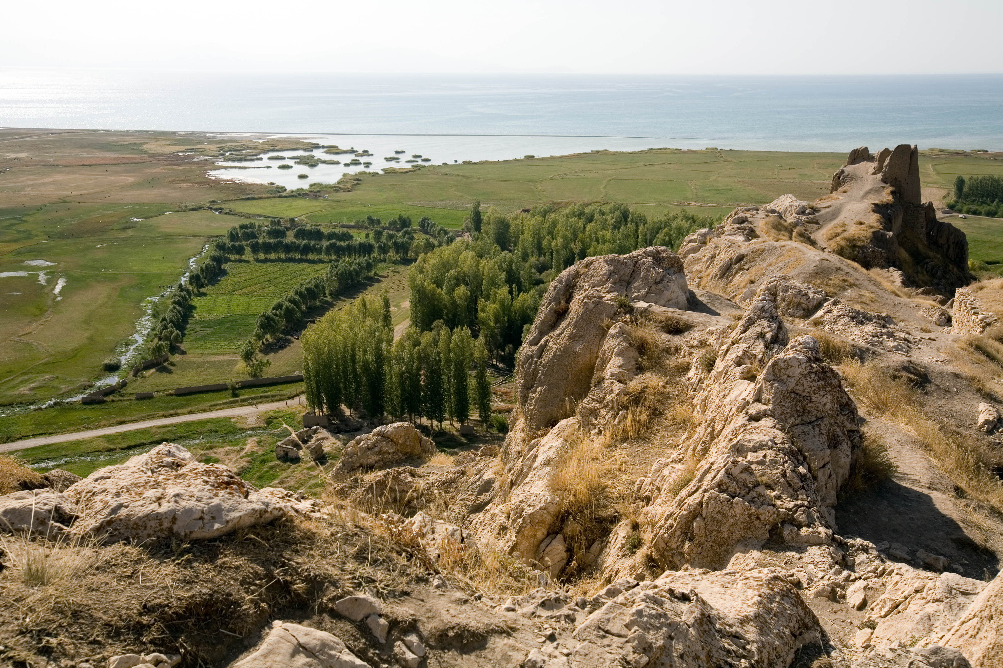 The Fortress of Van also known as Van Citadel is a massive stone fortification built by the ancient kingdom of Urartu, overlooking Tushpa, the Urartu Capital. The ruins of this building sit outside the modern city of Van, Turkey. [1]